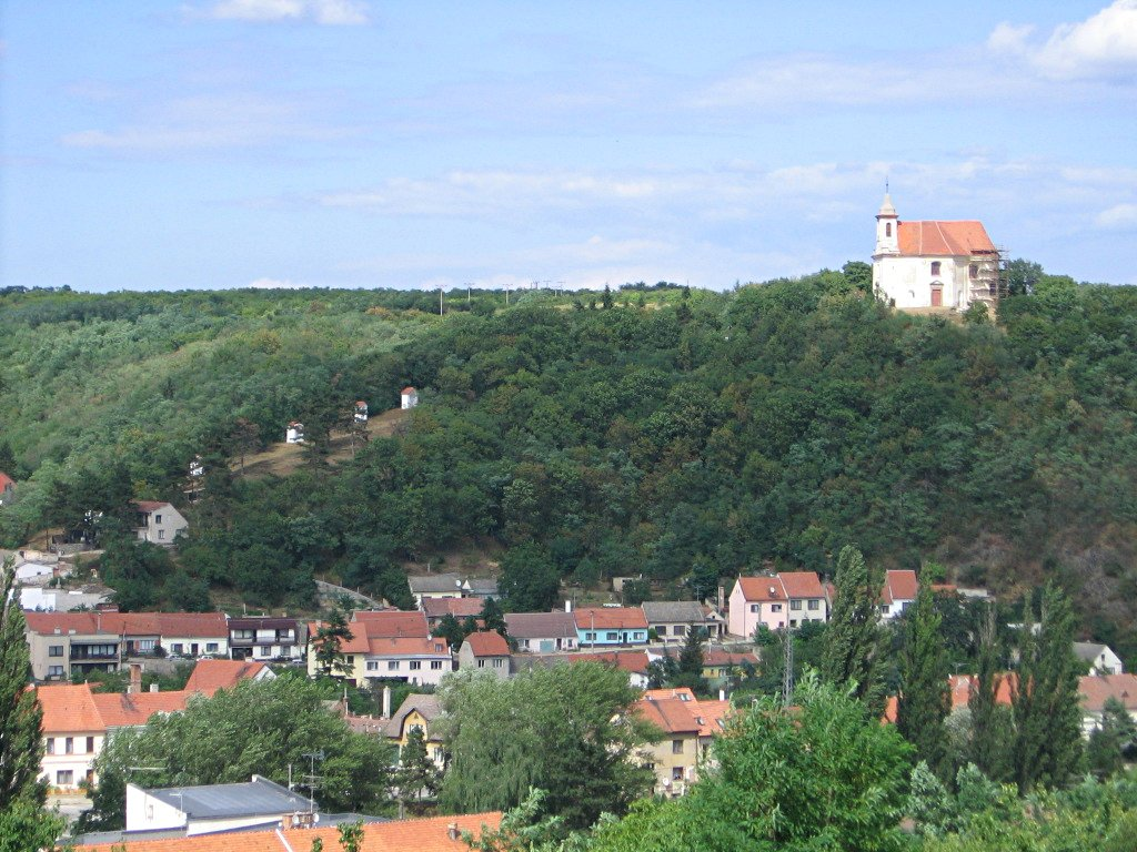 Pilgrimage chapel of St. Anthony with the way of the Cross upon Dolní Kounice.